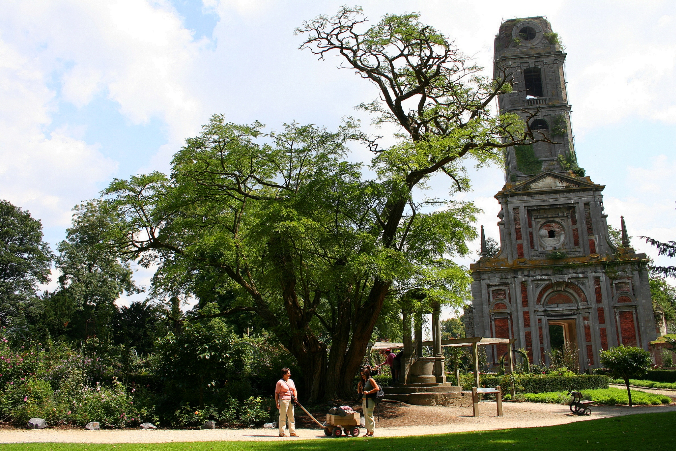 Black locust (Robinia pseudoacacia).